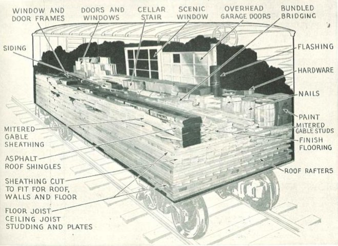 Screen capture from the catalog shown in the link on . Showing a 1950's pre-fabricated house loaded into a boxcar ready for shipping to the customer.